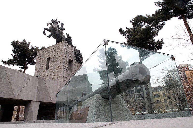 Tomb of Nader Shah - Mashhad, Iran